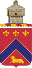 123rd field artillery coat of arms